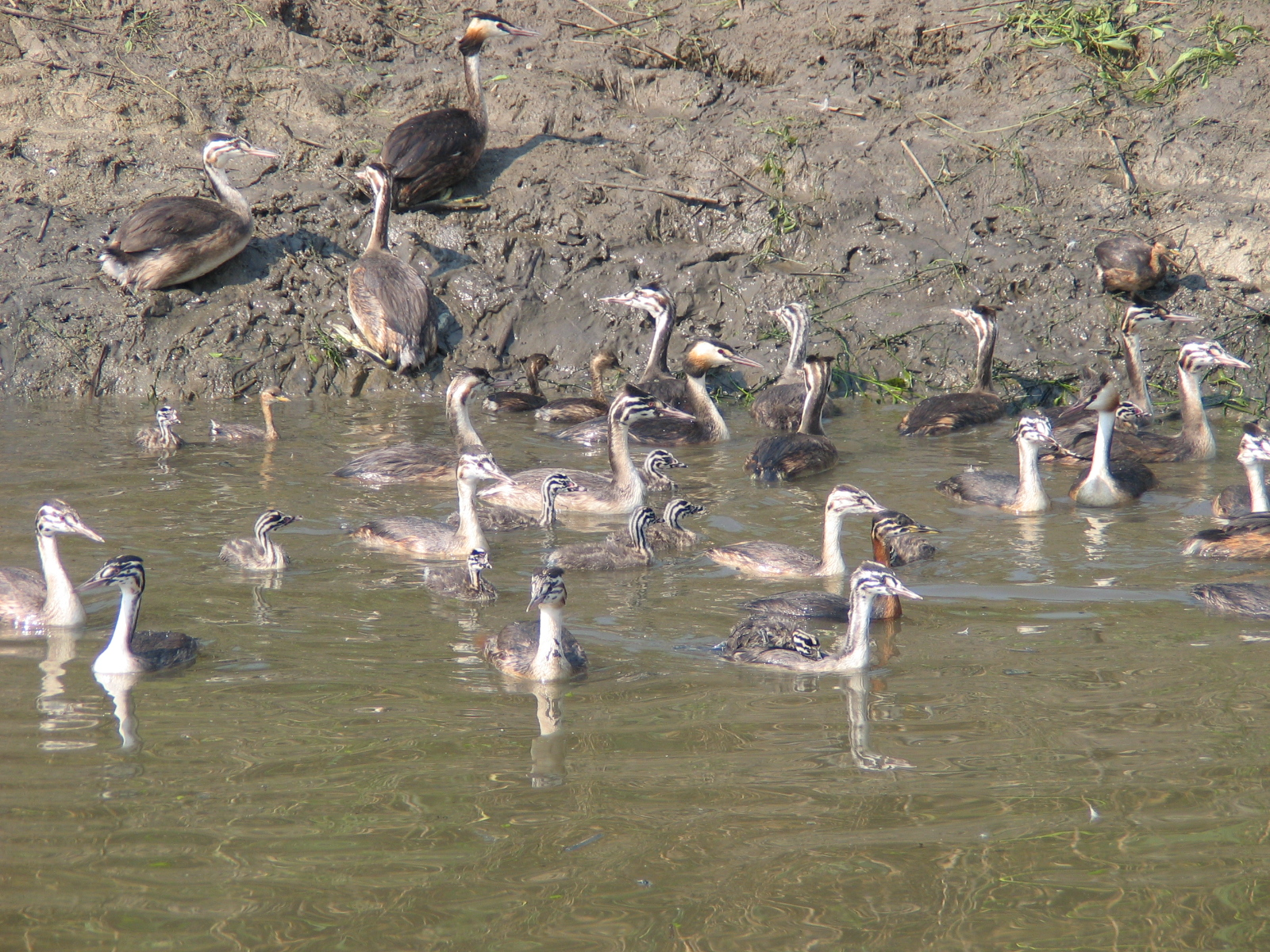 A mixed flock of Great Crested Grebes (Podiceps cristatus) and Little Grebes (Tachybaptus ruficollis) (also on the picture are several young of both species) that was trapped in one of the receding pools that remained when the intermittent Lake Cerknica (Slovenia) dried out almost entirely. The adults were reluctant to escape, because their young were yet unable to fly. Most of the birds were captured and taken to the nearby stable portion of the lake where they were released after the adults were ringed.